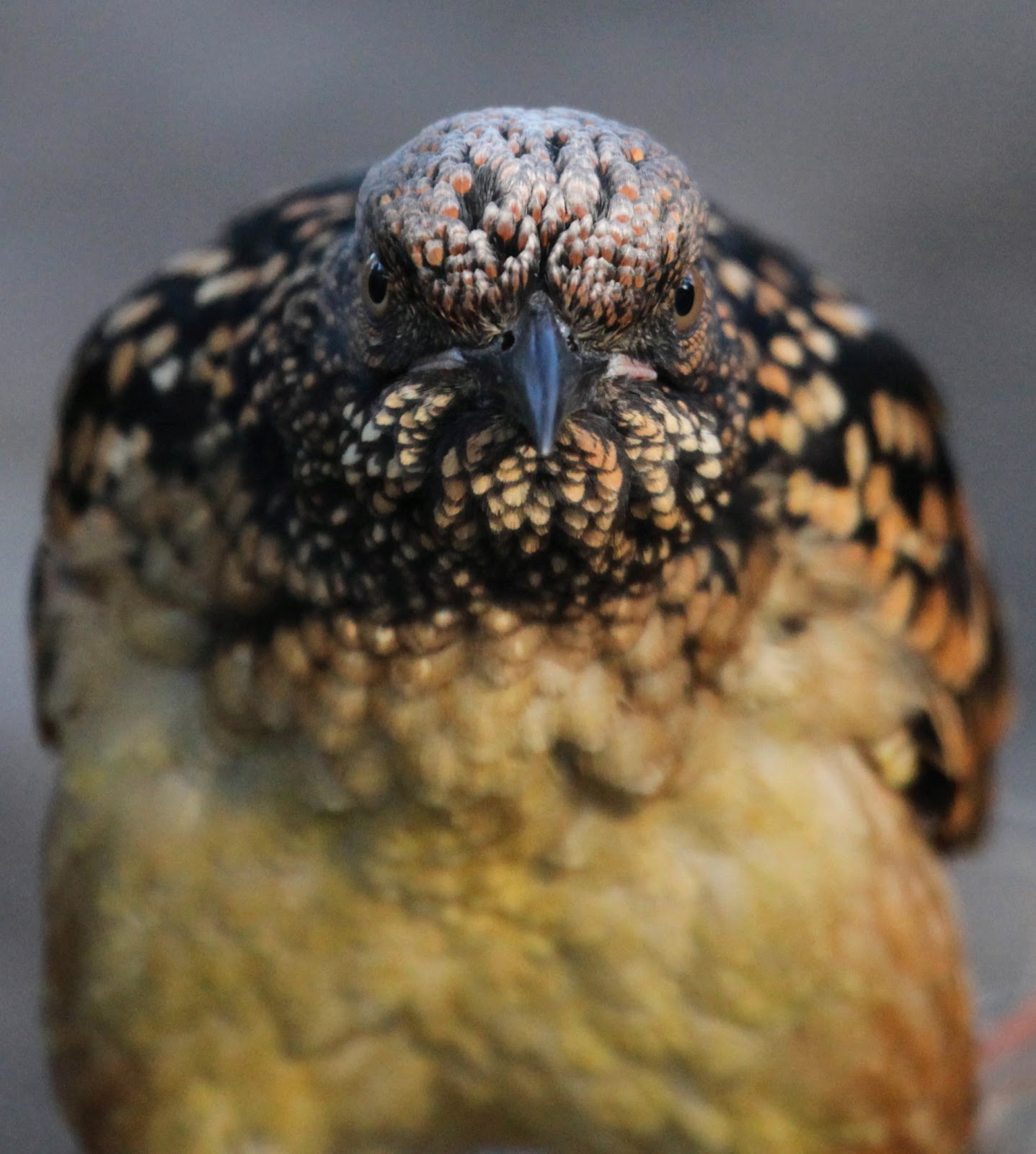 Western Bowerbird (Chlamydera guttata), Northern Territory, Australia